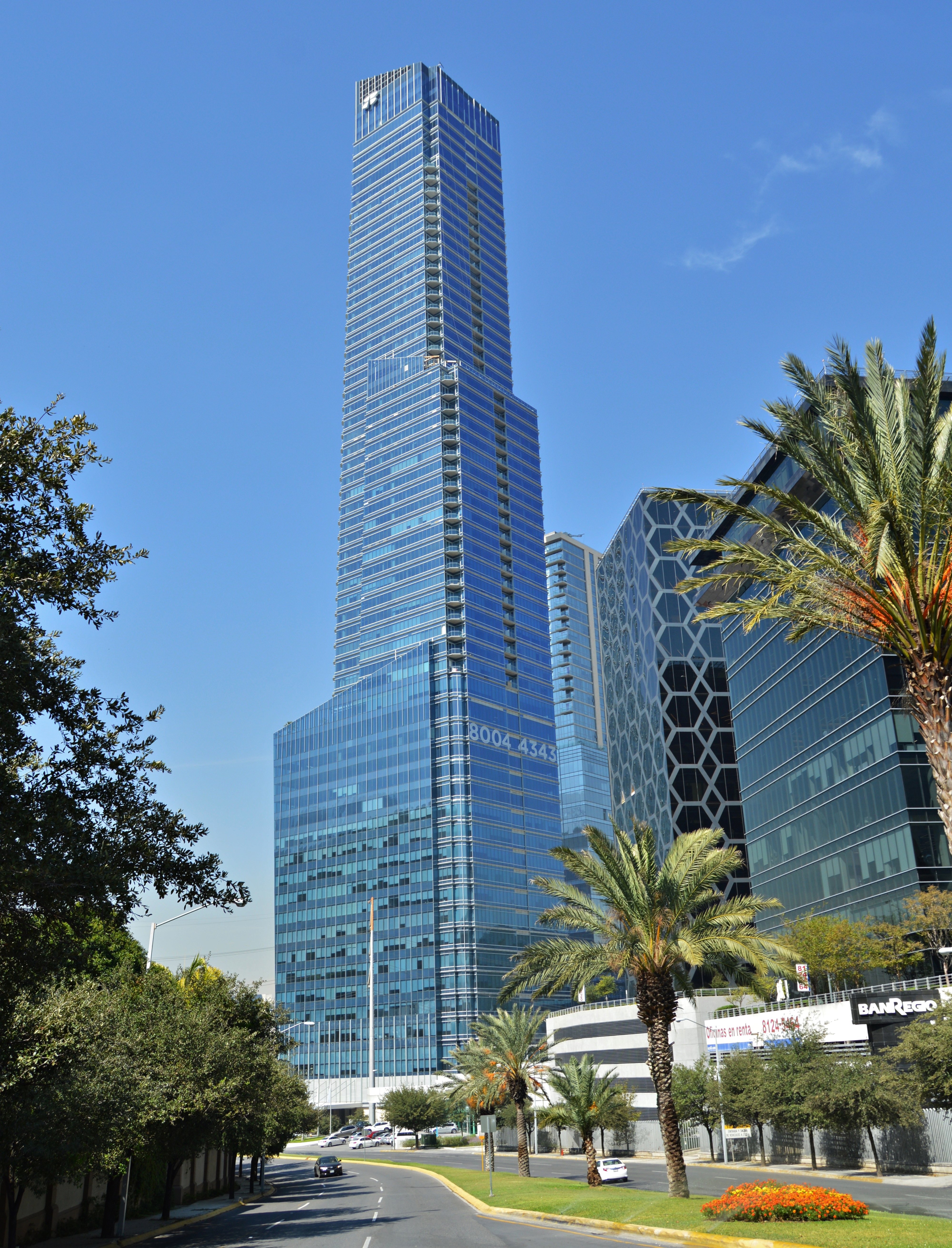 Koi 02.11.2017 by Victor M. Torres